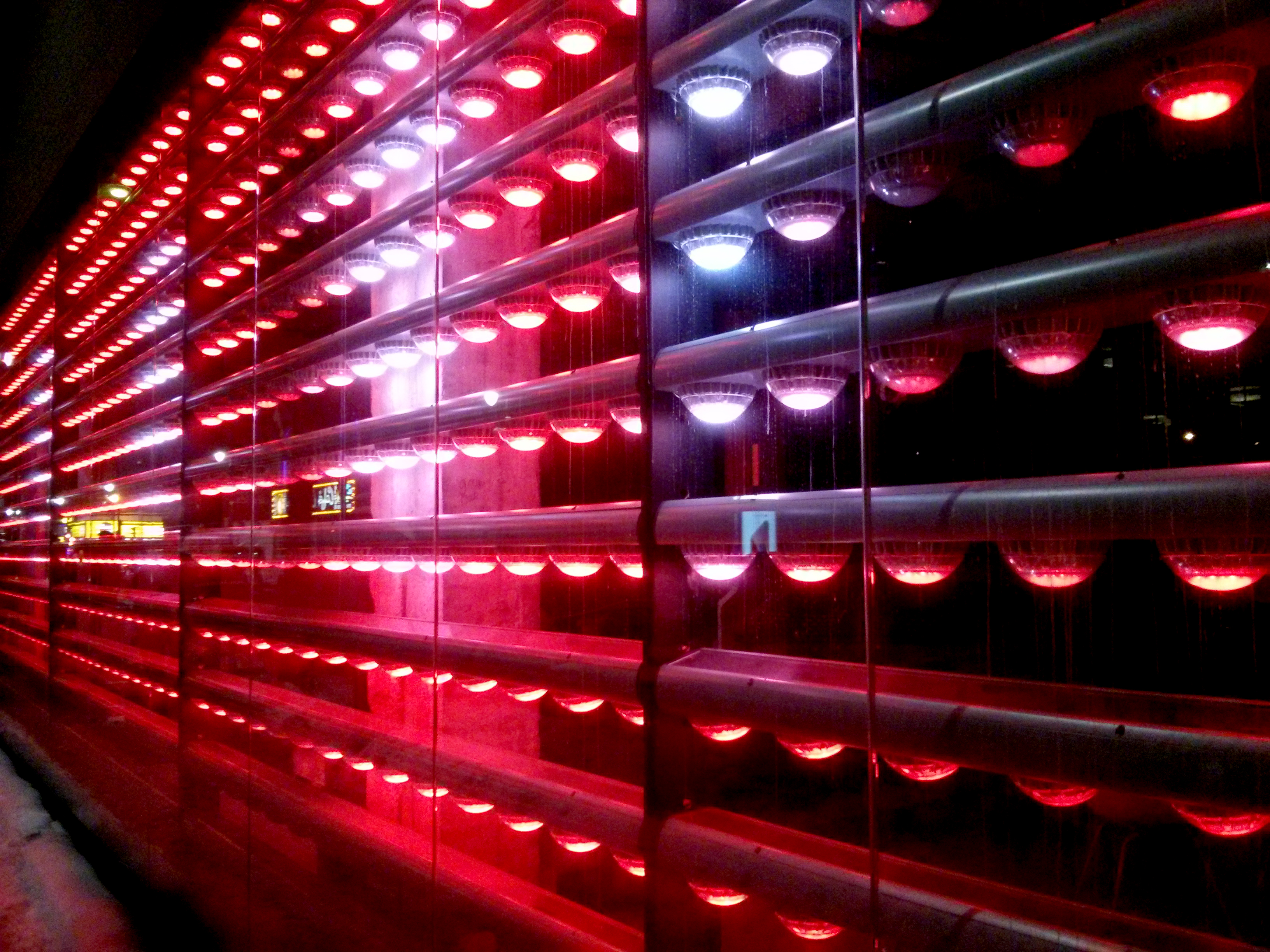 Front of SAT building in Quartier des spectacles in Montreal, on February 4th 2015.